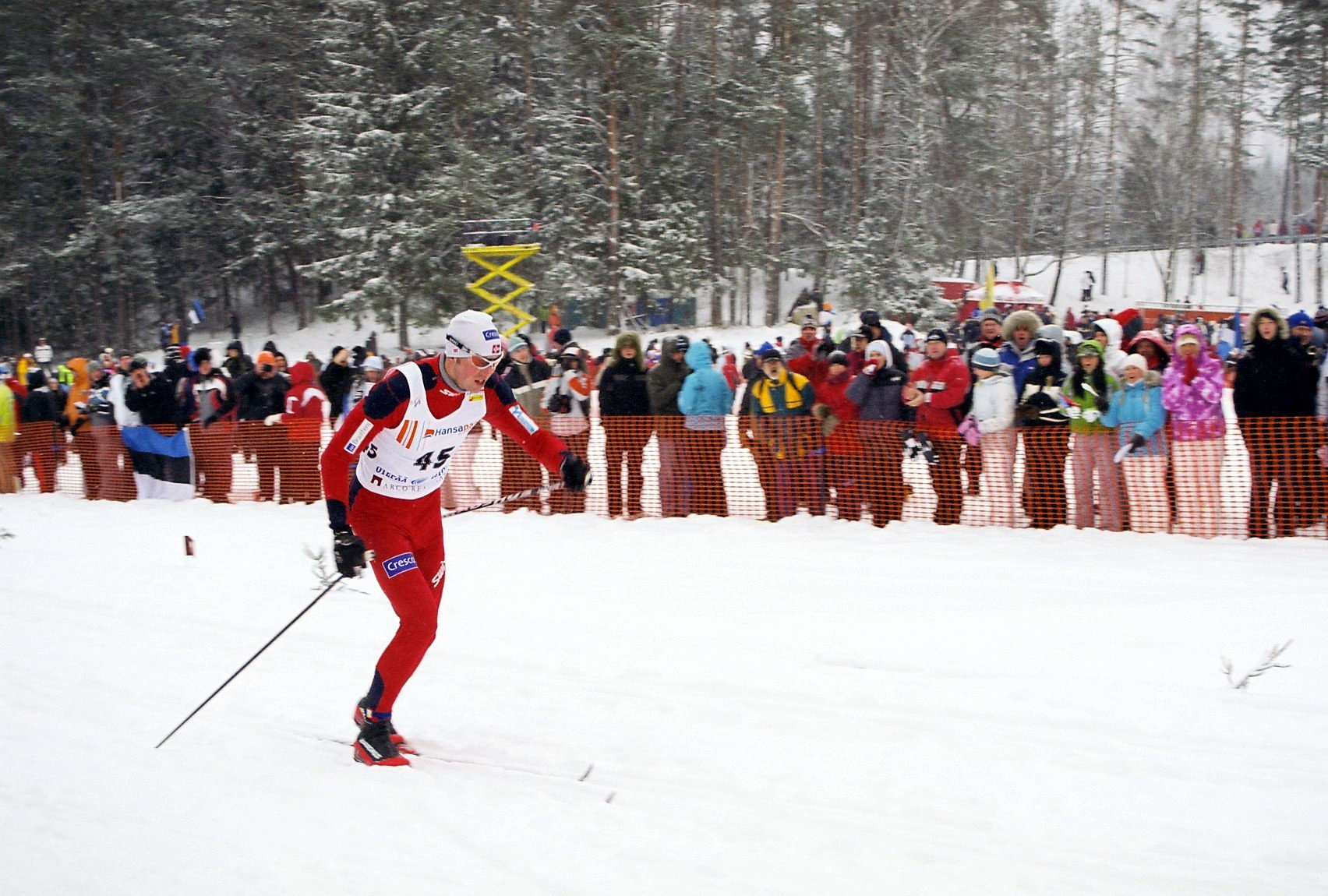 FIS World Cup Cross Country - 2007 in Otepää, Estonia Men Classical 15 km Frode Estil